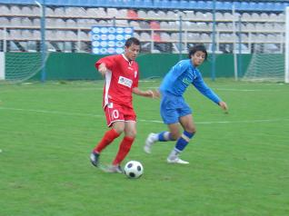 fcgagra